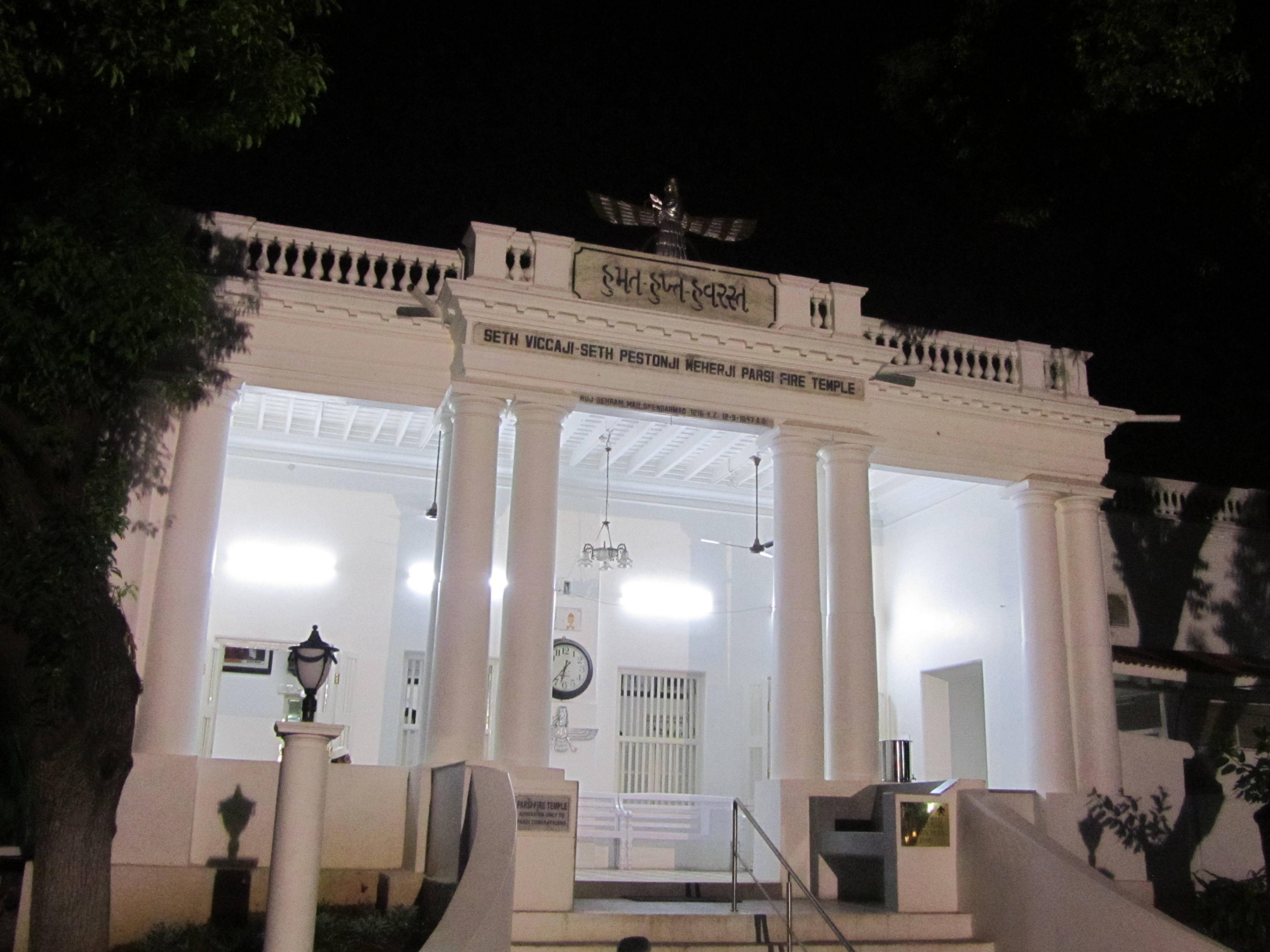 Parsi Fire Temple in Secunderabad, India. Oct. 2014. Photo: Hamid-Reza Sorouri / Persian Dutch Network